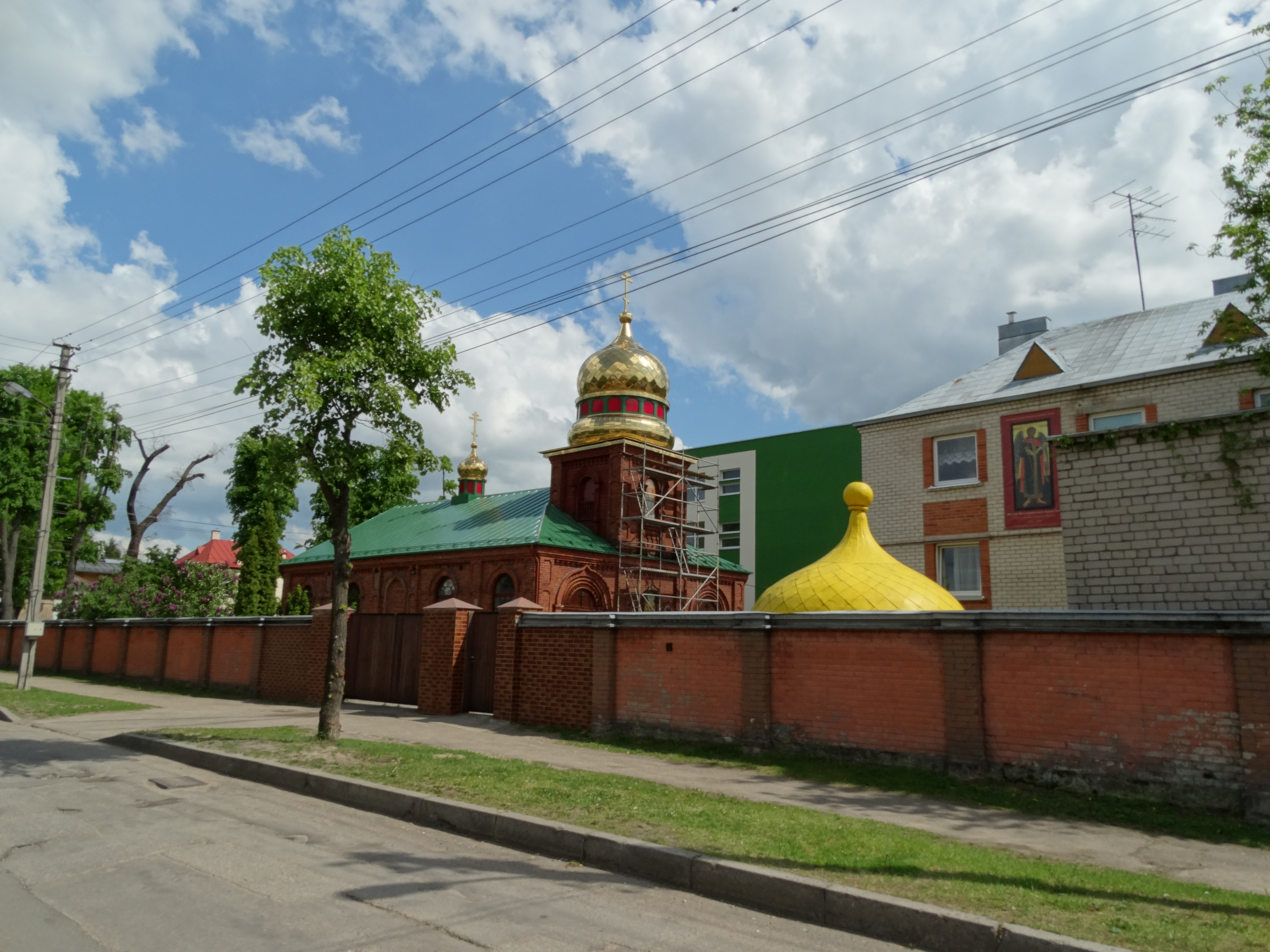 Orthodox Church of Old Believers in Kaunas, Lithuania